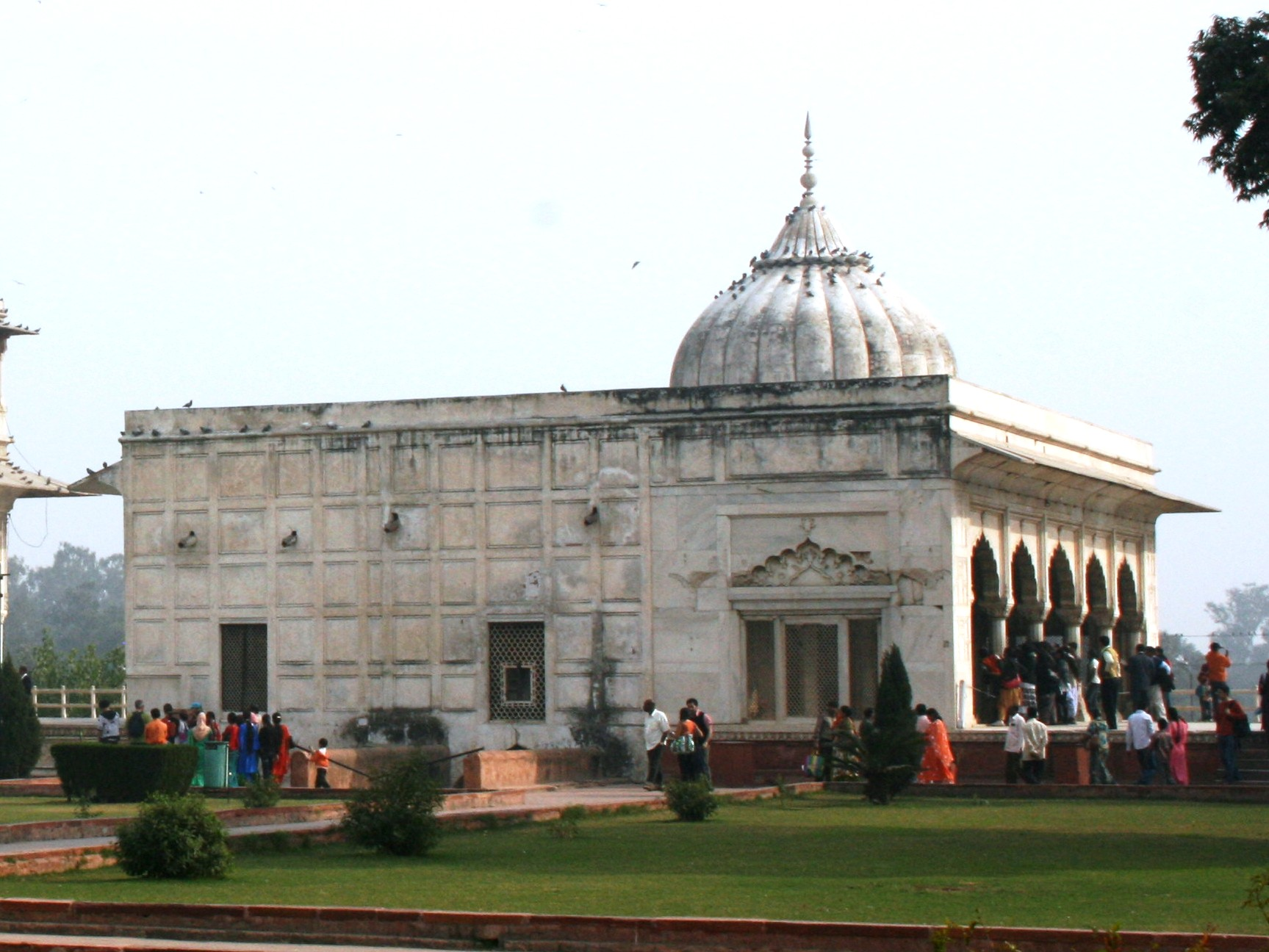 Khas Mahal in the Red Fort in Delhi, India